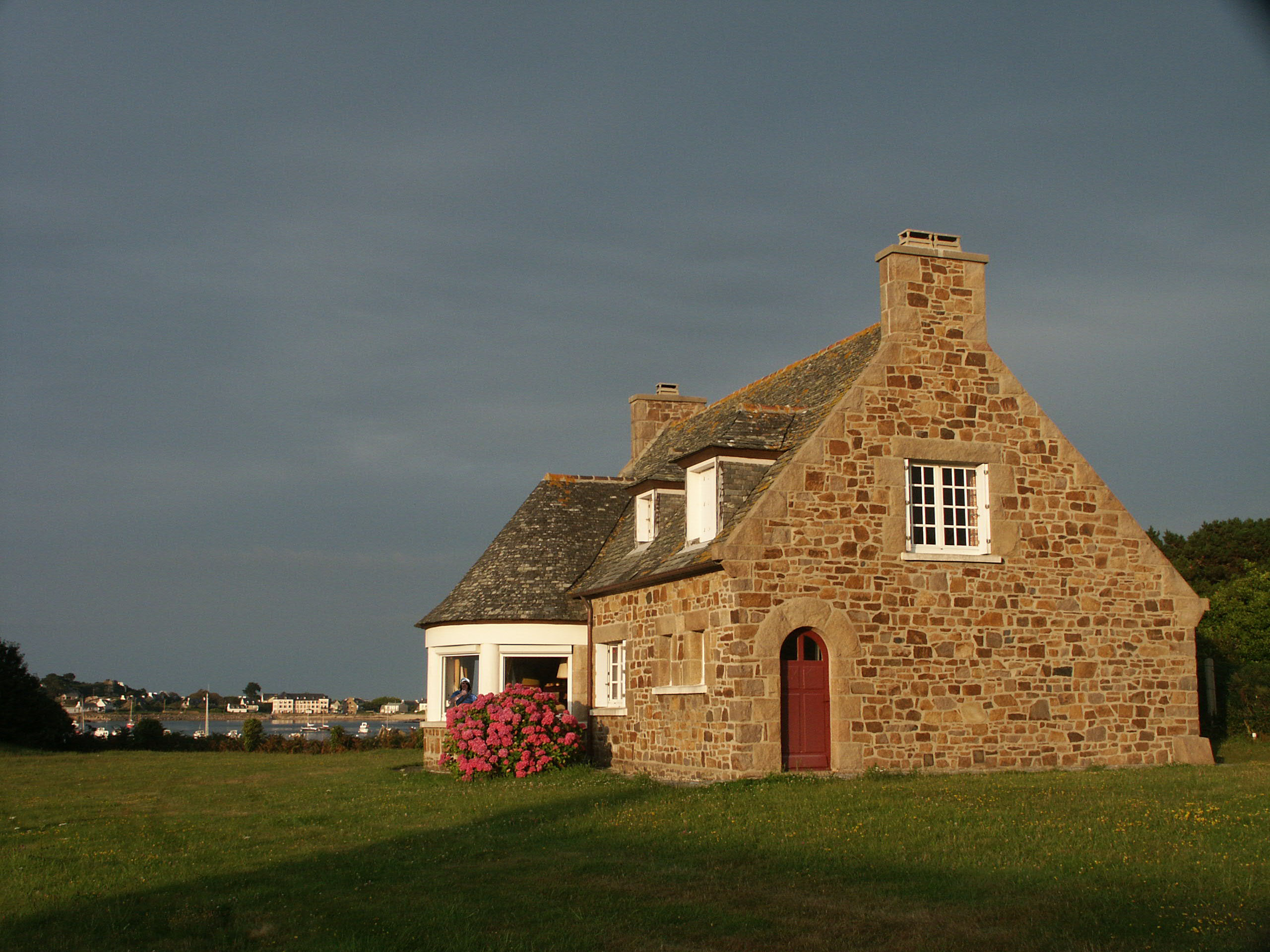 House at the Coast of Brittany (in the community Plougasnou); Georg Mittenecker (Privataufnahme)